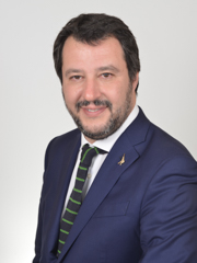 Matteo Salvini, Italian politician